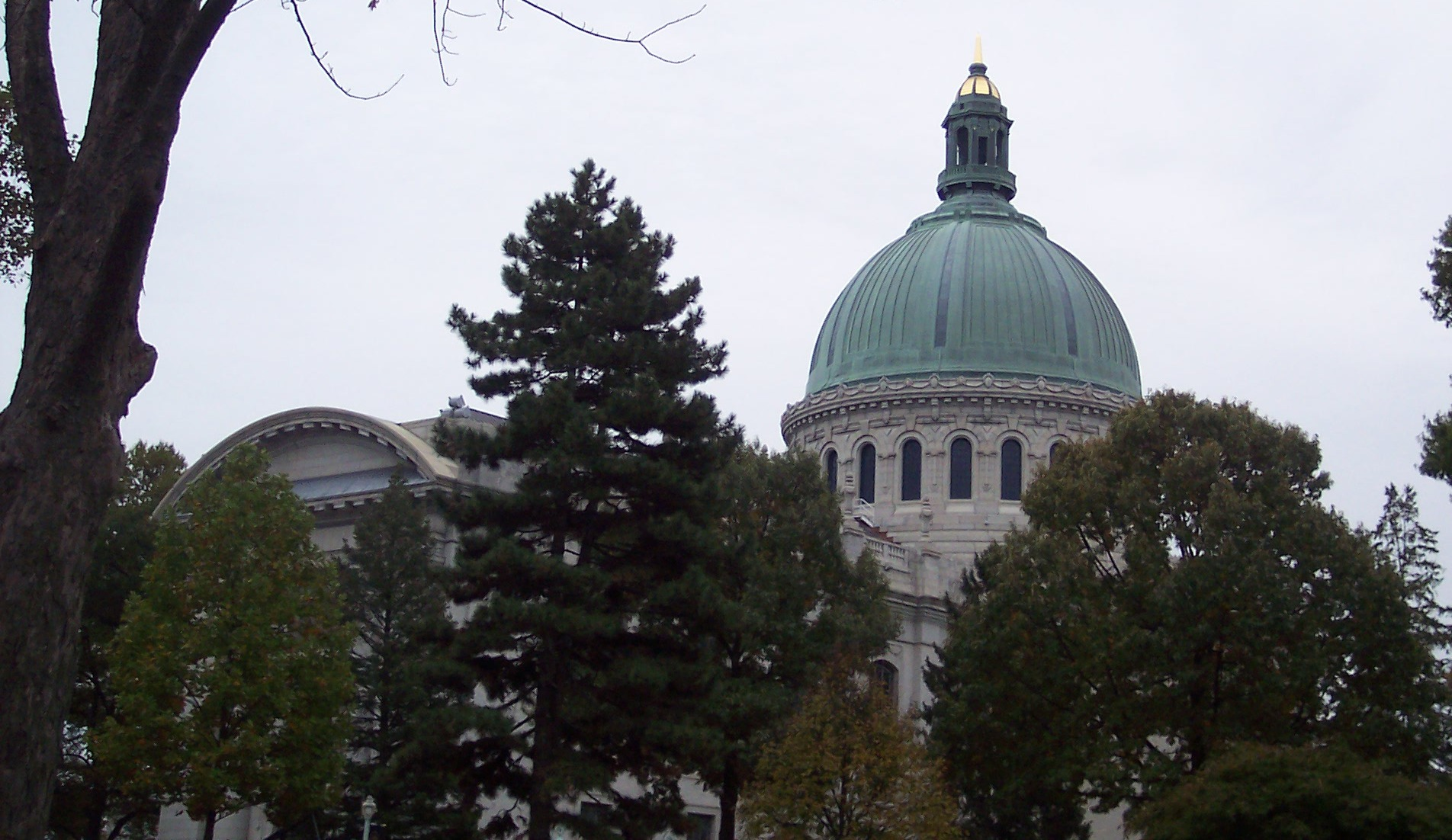 United States Naval Academy Chapel